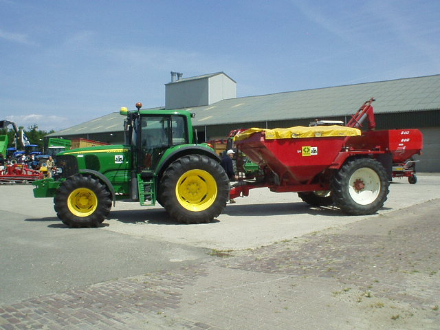 John Deere tractor with spreader